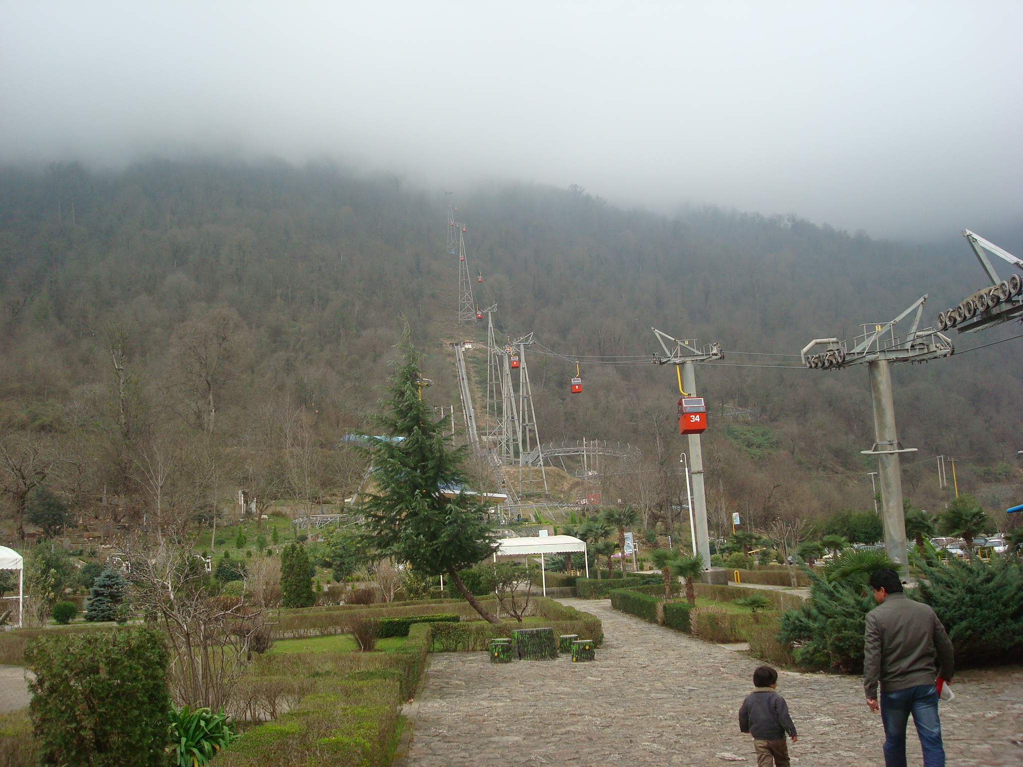 namak ab rud